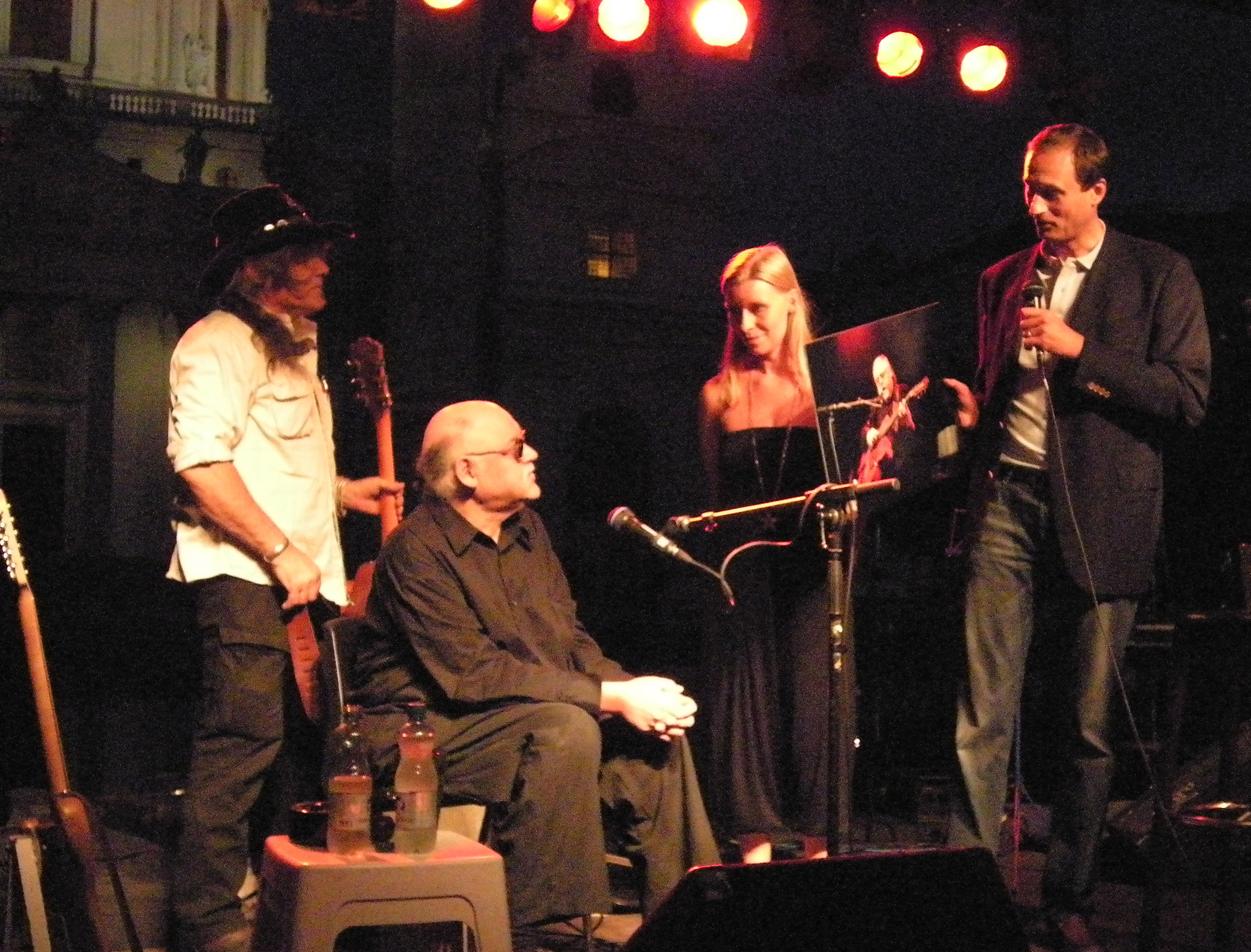 Karlstag Wien 20100625 416 Andreas Mailath-Pokorny presentig a souvenir to Karl Ratzer Camera time stamp is set to UT, which is local CEST -2h.